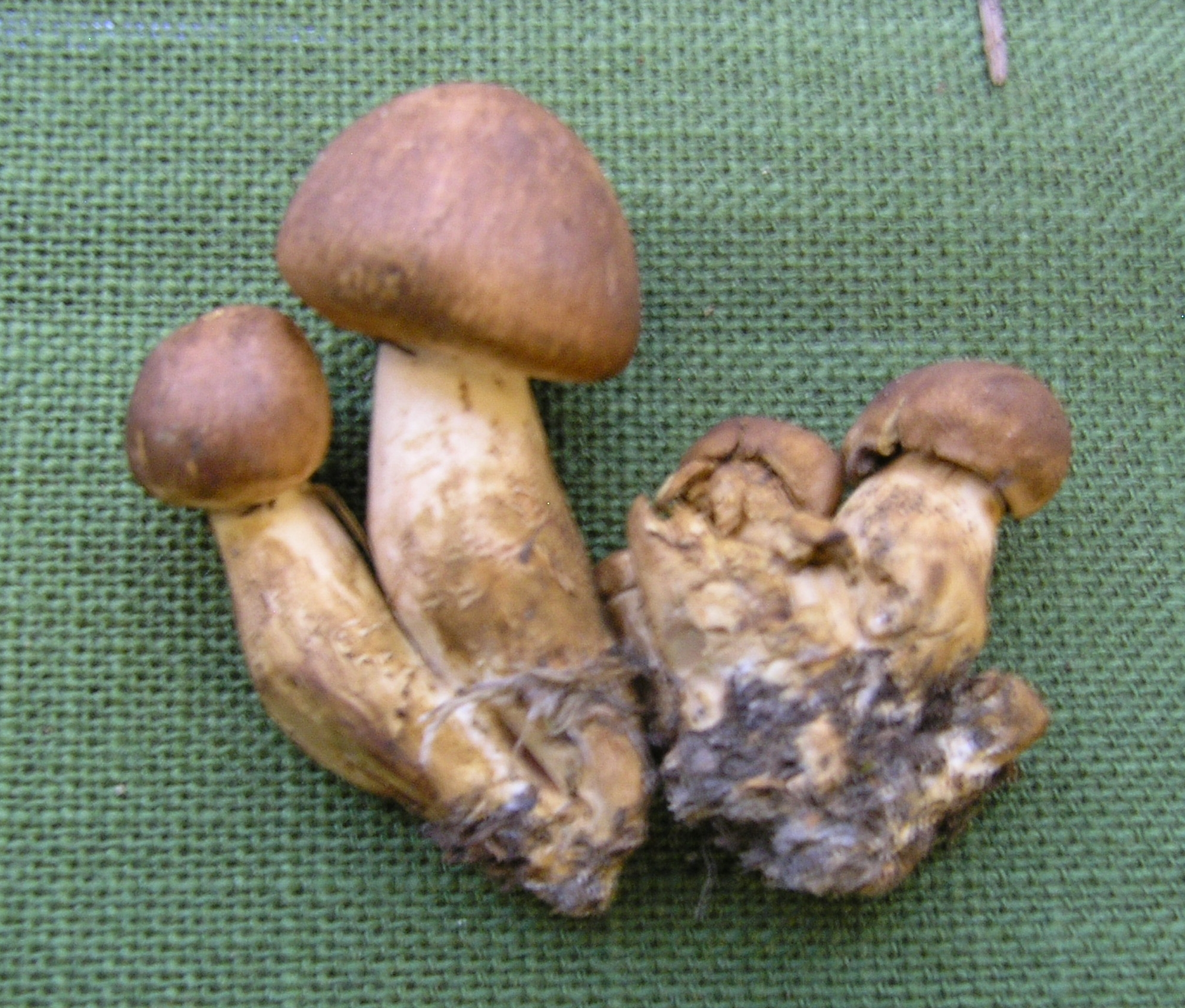 Tricholoma imbricatum, exposed at the Mostra del fungo of Ceva